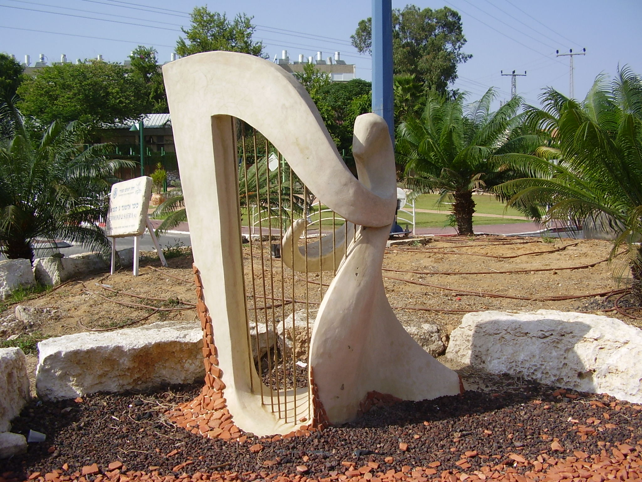 Israel, Sderot, Edmond Gimel Safra Square, the harp player in sderot. In every round-about there are wonderful sculptures done by a local artist here named Haviv Ben Abu. The sculptures are of musical instruments as Sderot used to be famous for its music.